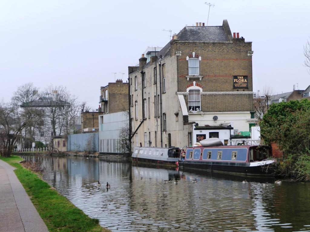 The Flora, Harrow Road Seen from the towpath of the Grand Union Canal's Paddington Branch.